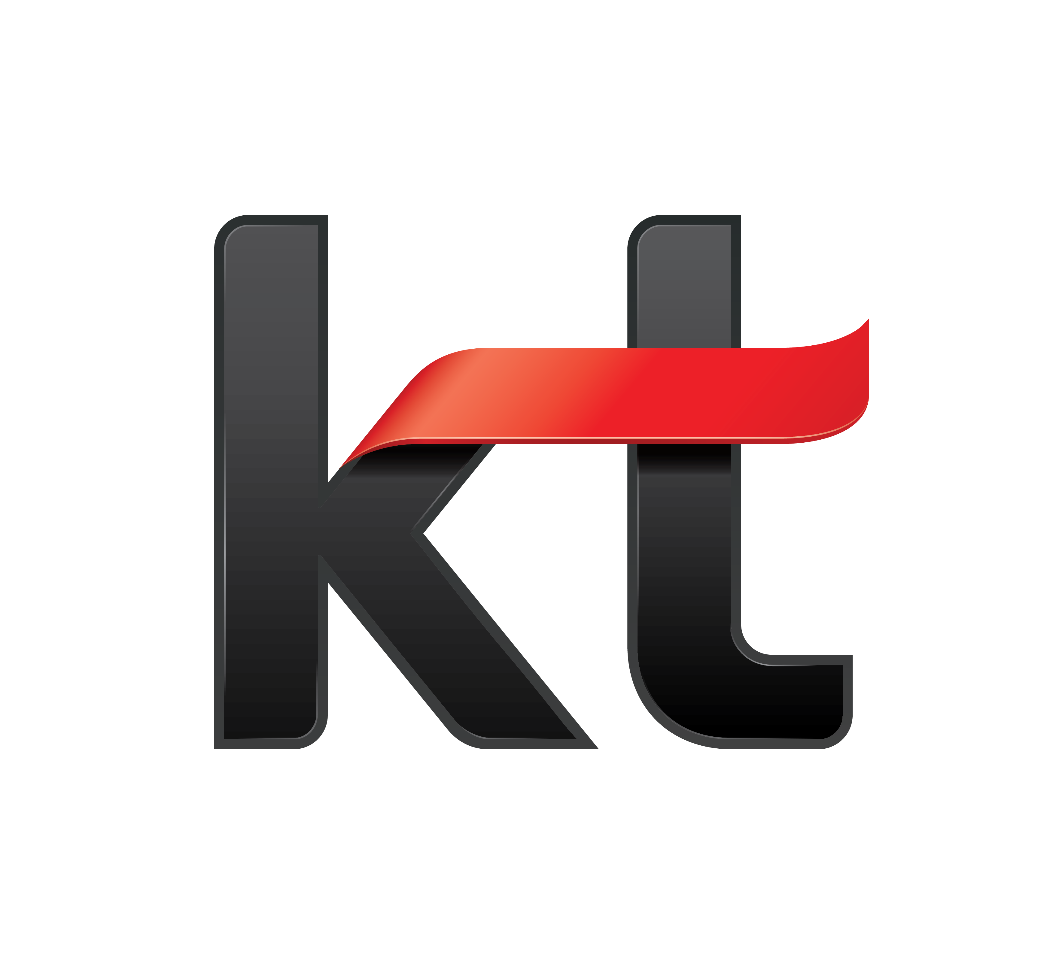 Korea No.1 telecommunication company logo.